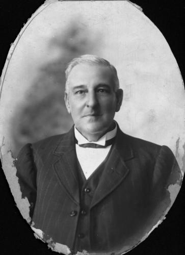 John Crase, Lord Mayor of Brisbane 1906